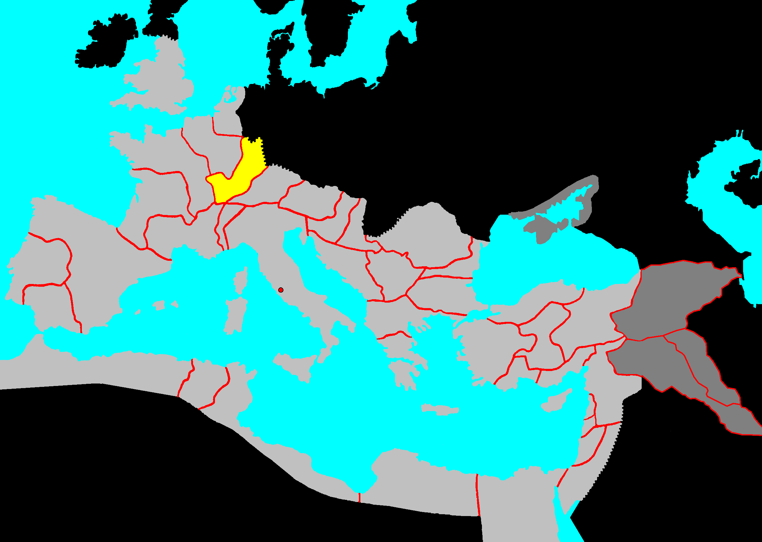 Description: provinces of the Roman Empire (Imperium Romanum) Source: own work Date: December 2005 Author: --Immanuel Giel 12:50, 13 December 2005 (UTC) Other versions: none